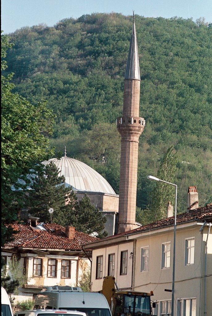 Bulbul Hatun Mosque